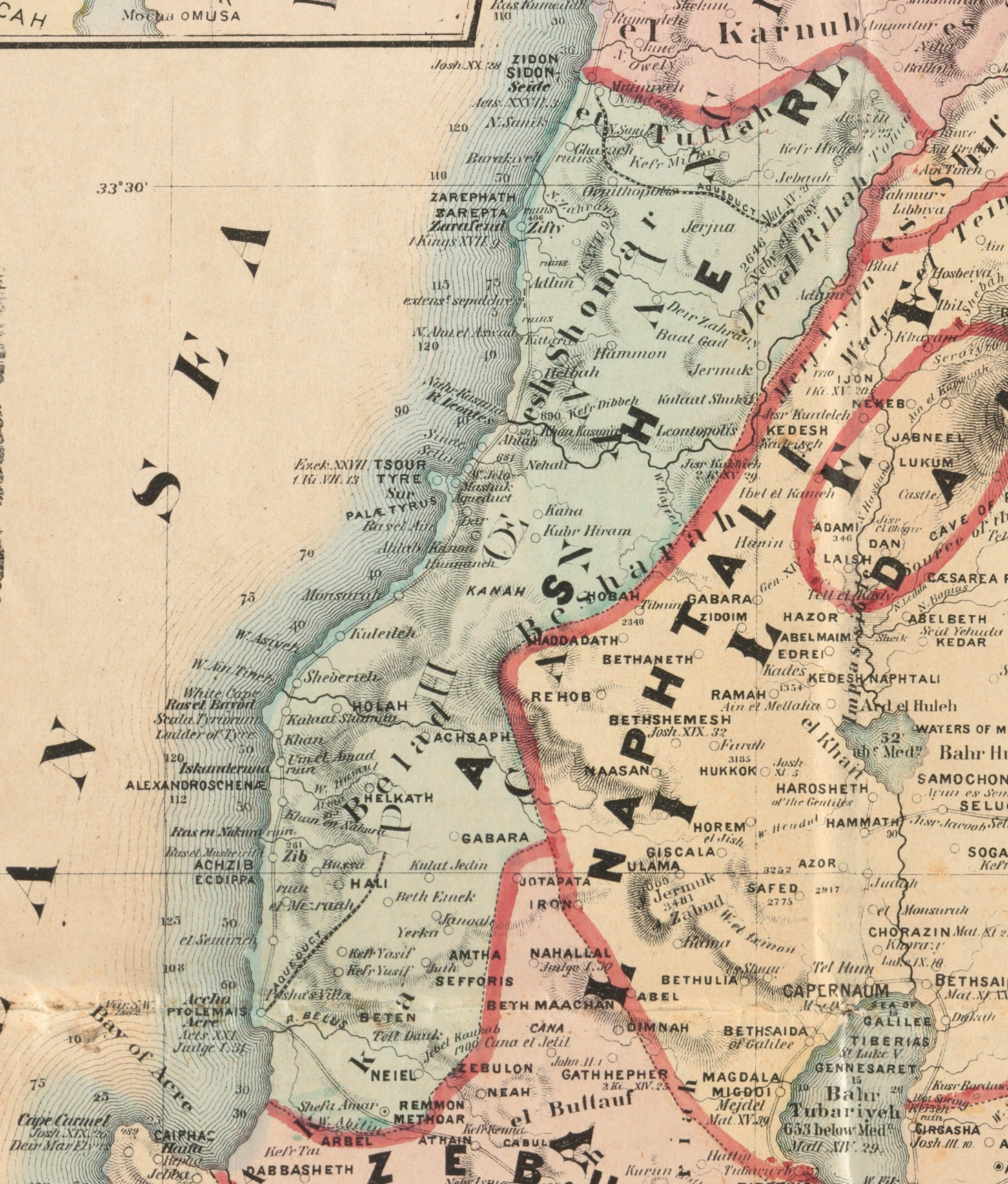 Map of Palestine and all Bible lands, containing the ancient and modern names of all known places, a table of seasons, weather, productions, etc., the journeys of the Israelites from Egypt, the world as known to the Hebrews, the travels of the apostle Paul, the holy city of Jerusalem, altitudes in English feet on the locality, texts of scripture cited to cities, etc.